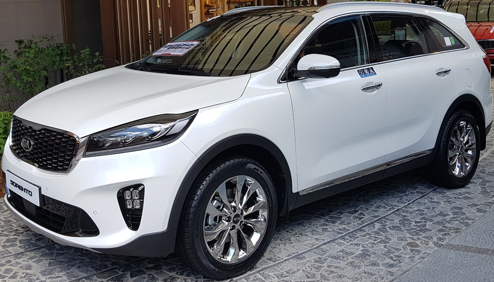 Kia The New Sorento